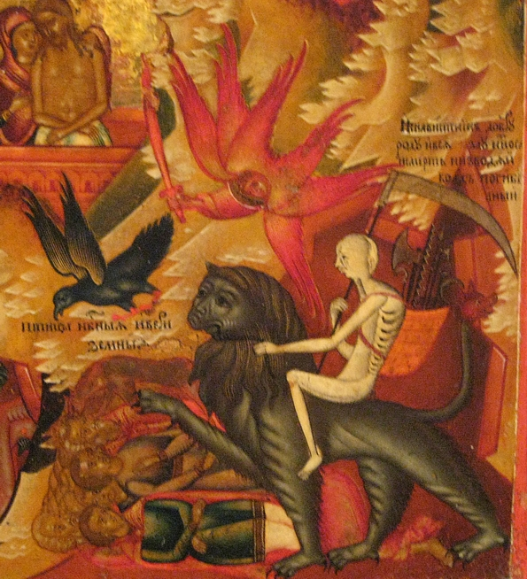 Единородный сын. "The only begotten Son of God"